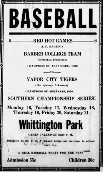 This is a baseball game advertisement for the A.P. Martin and Vapor City Baseball Teams in the Hot Springs New Era Newspaper. A. P. Martin's Barber College Team would later become know as the Memphis Red Sox.